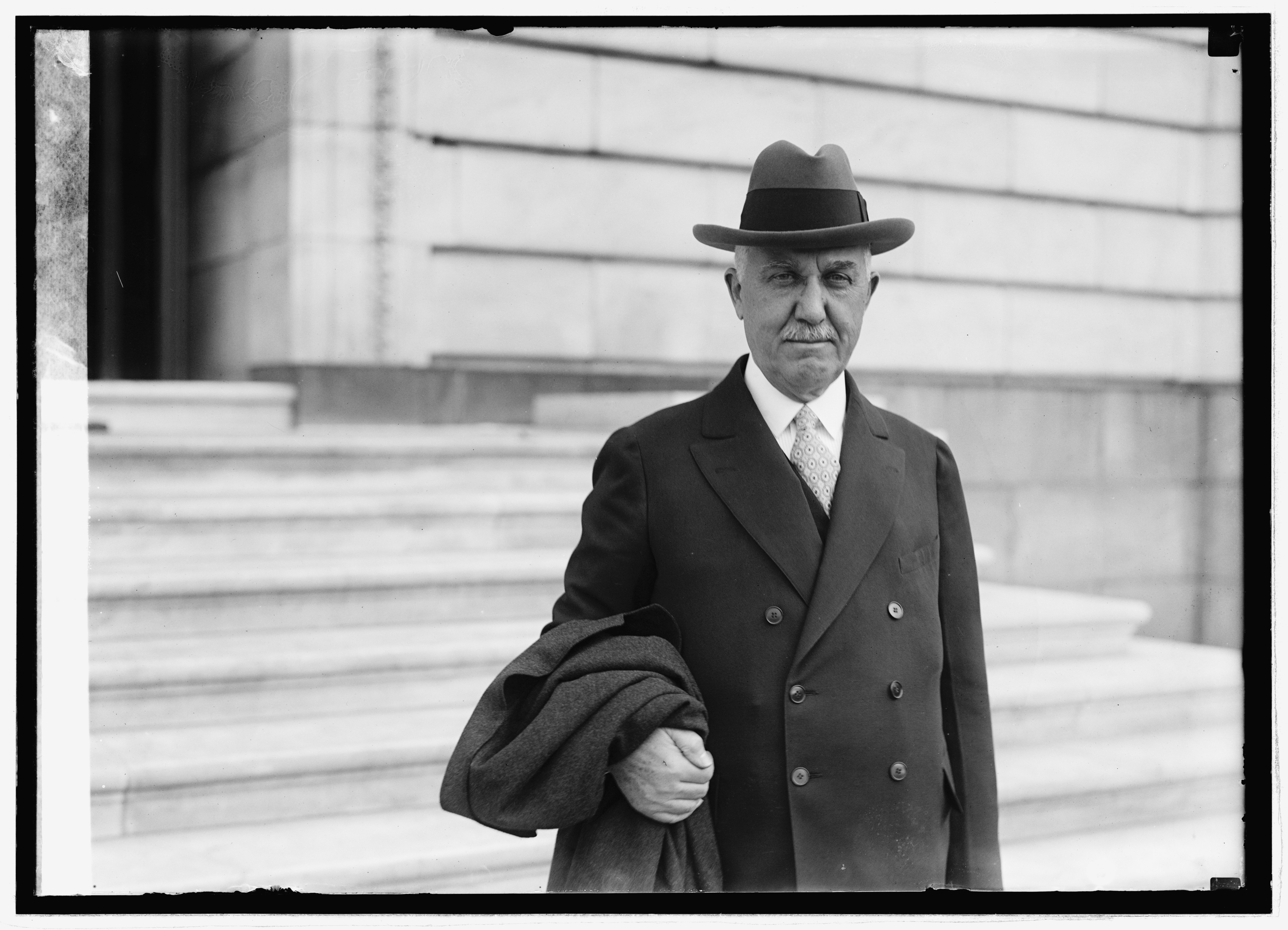 Title: Richard B. Mellon of [Pittsburg, 10/30/24] Abstract/medium: 1 negative : glass ; 5 x 7 in. or smaller